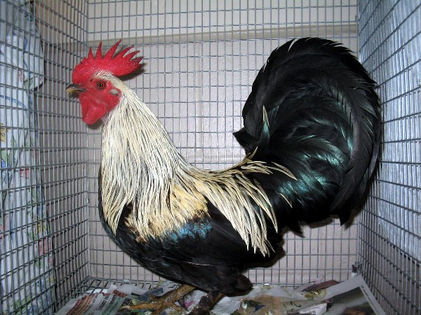 A Dutch Bantam rooster.